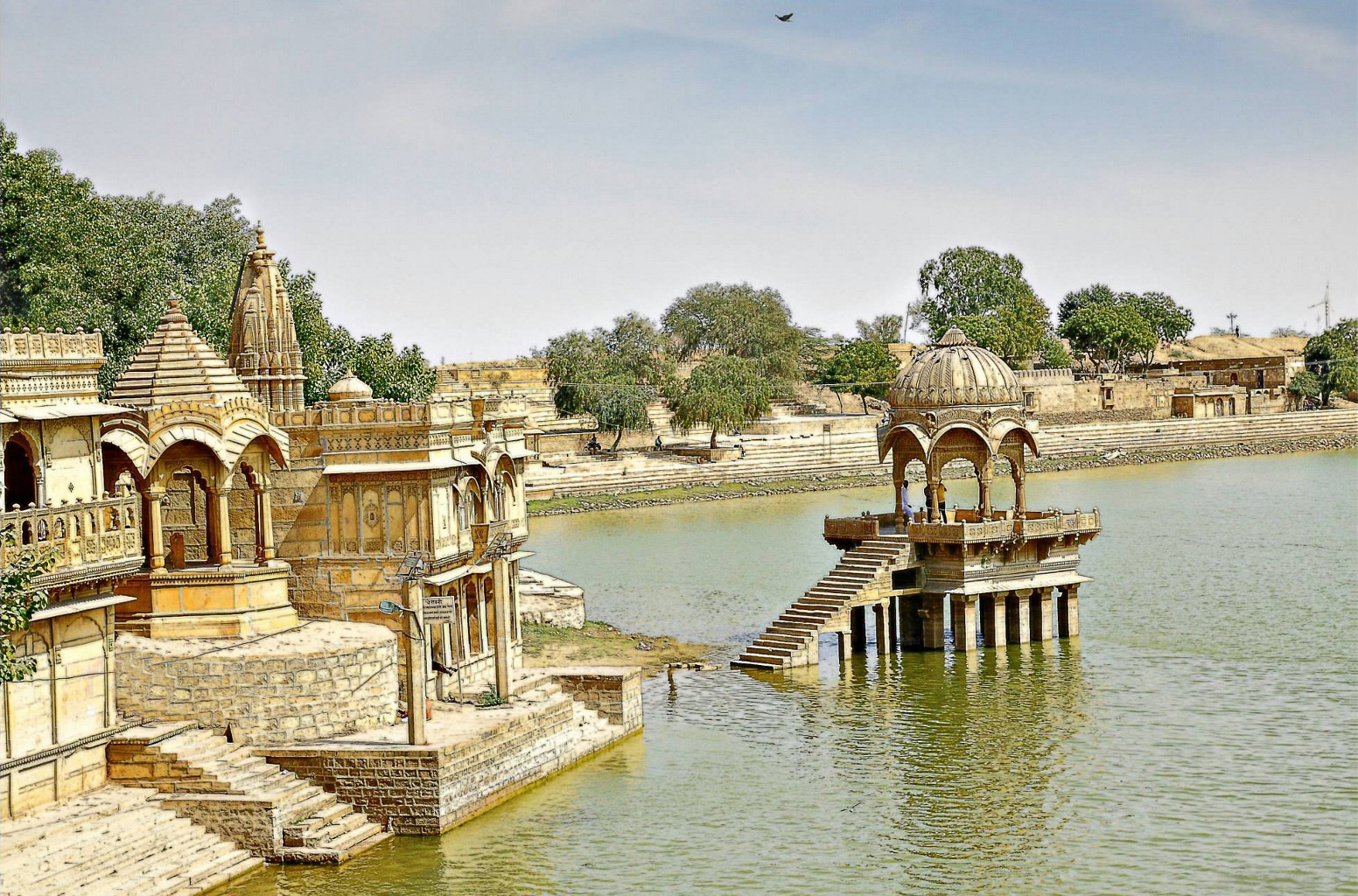 Gadsisar lake, Jaisalmer